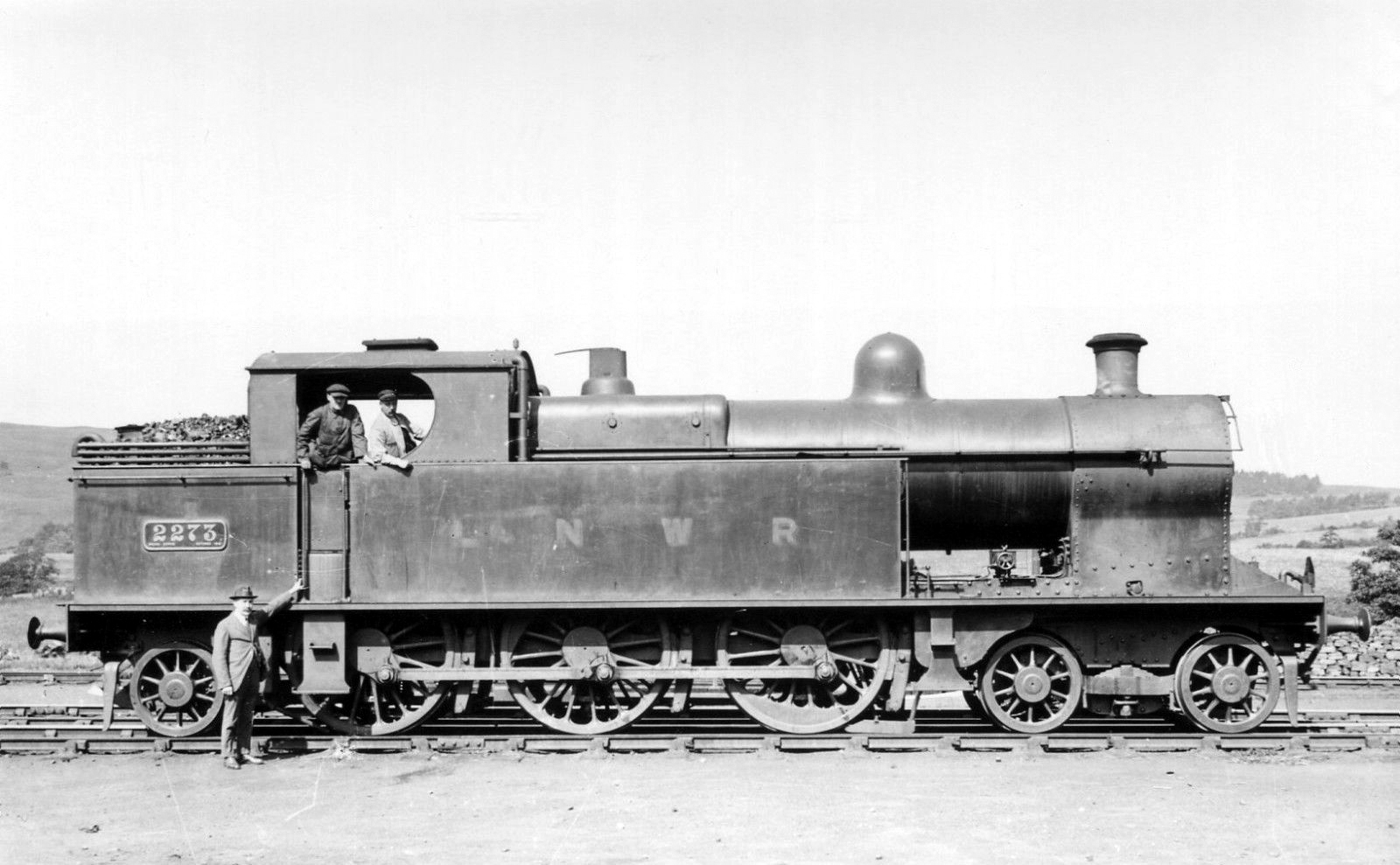 Photograph of LNWR engine No. 2273, 2665 Class 'Prince of Wales Tank'